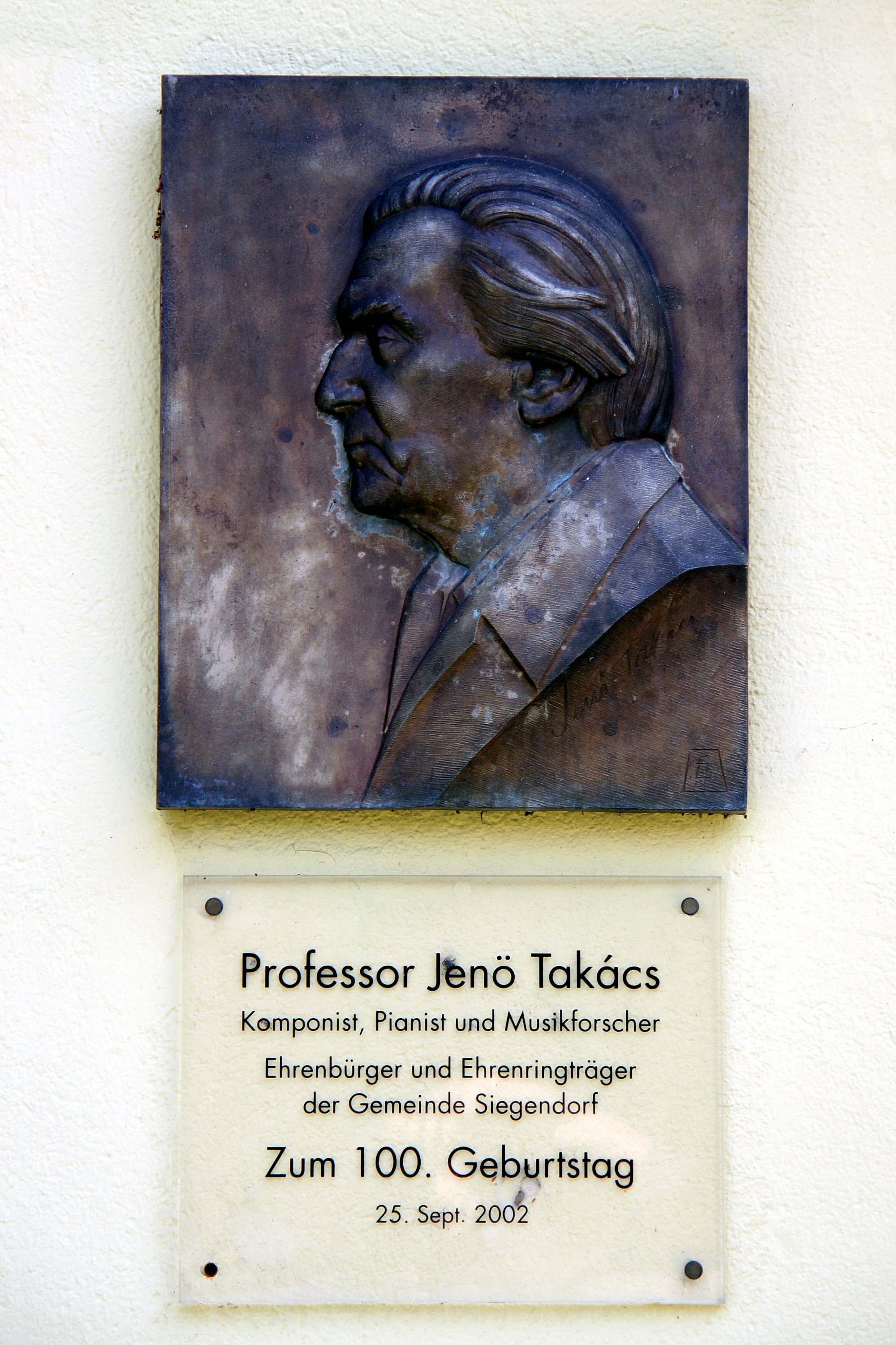 Jenő Takács memorial - Siegendorf. Object location47° 46′ 47.95″ N, 16° 32′ 22.44″ E